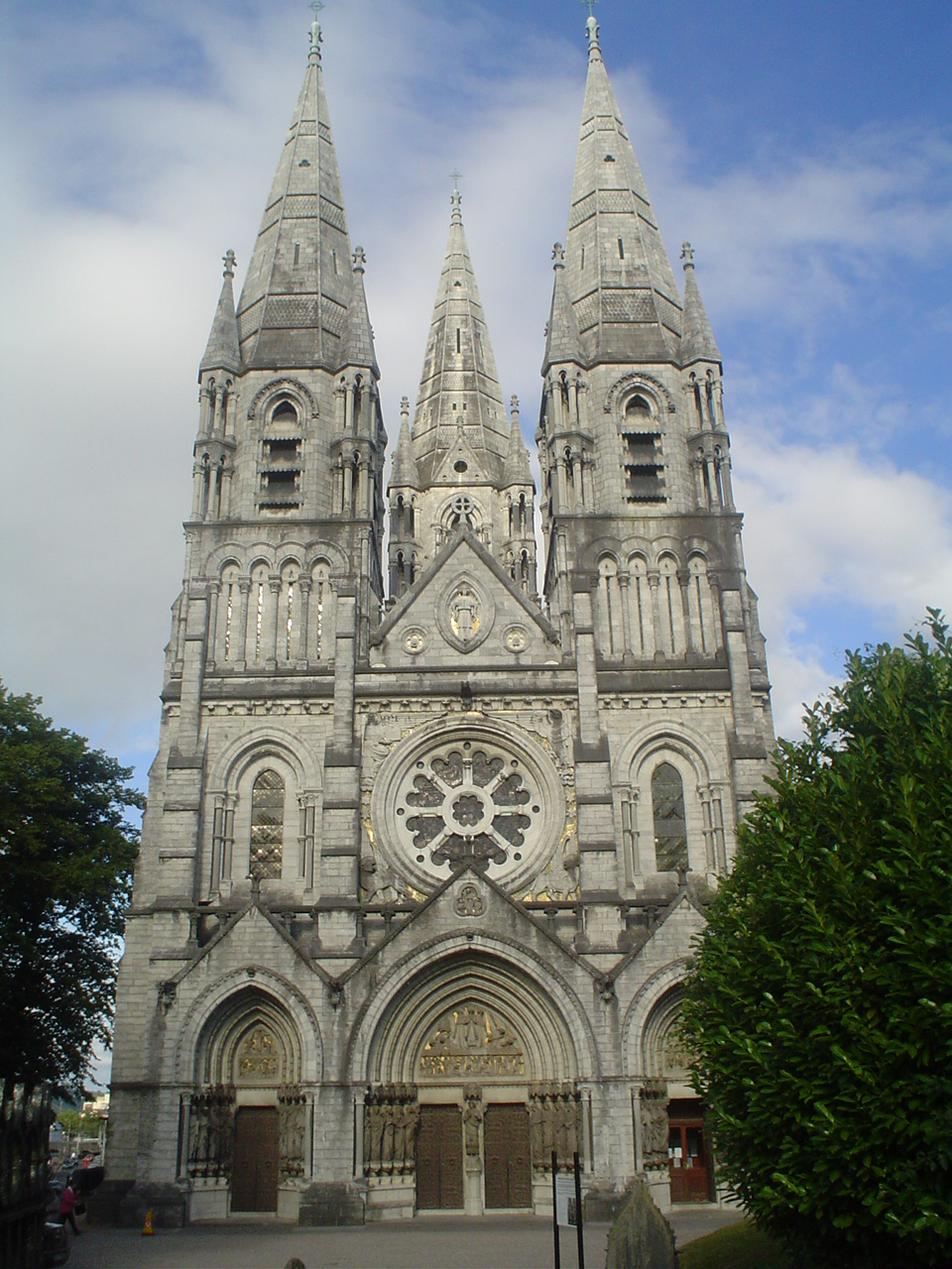 Cork - St. Finbarrs Cathedral